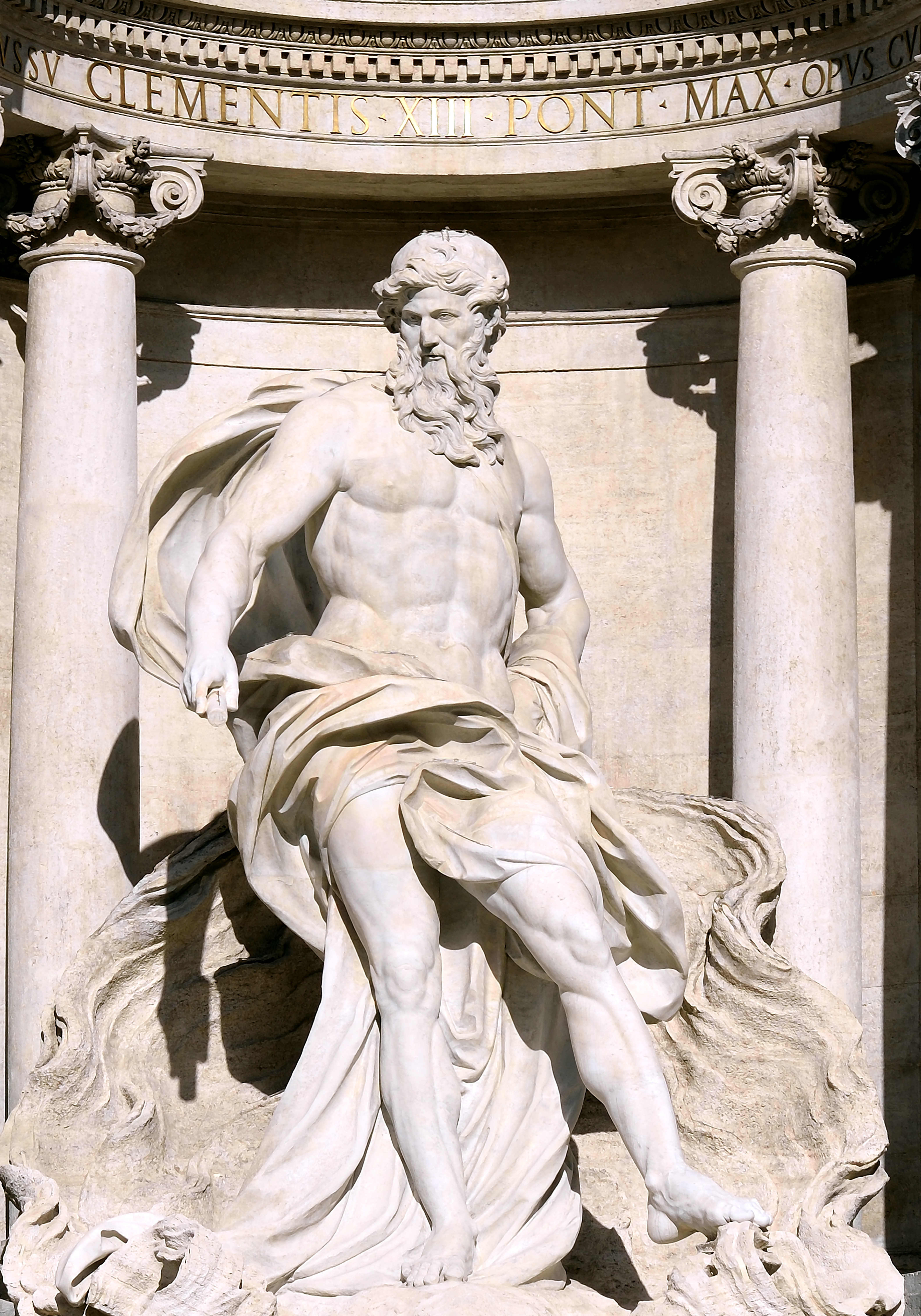 Detail of the Trevi Fountain in Rome with the centered god of sea Oceanus (Okeanos)